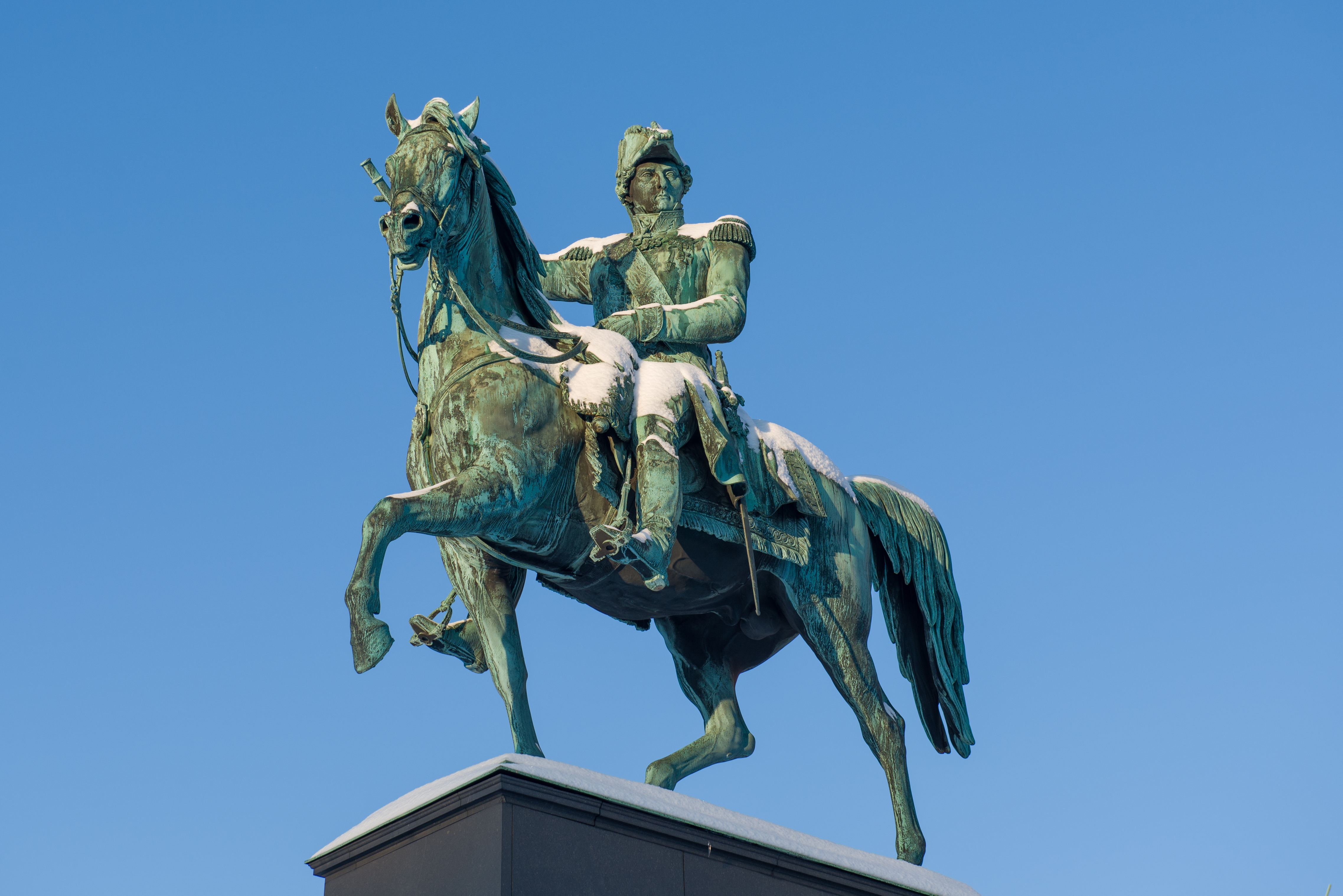 1854 statue of Charles XIV John of Sweden at Slussen, Stockholm.